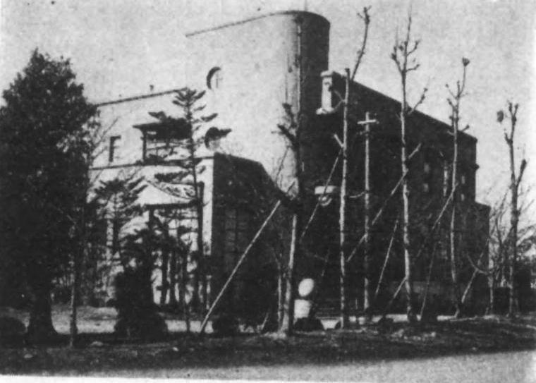 Library in Yamanashi prefecture, built in 1930